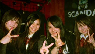 A picture taken of the Japanese pop group, SCANDAL, during an interview/autograph signing session during the Japan Nite US Tour 2008. Source: Me and my digital camera Articles pertained to on wikipedia: SCANDAL